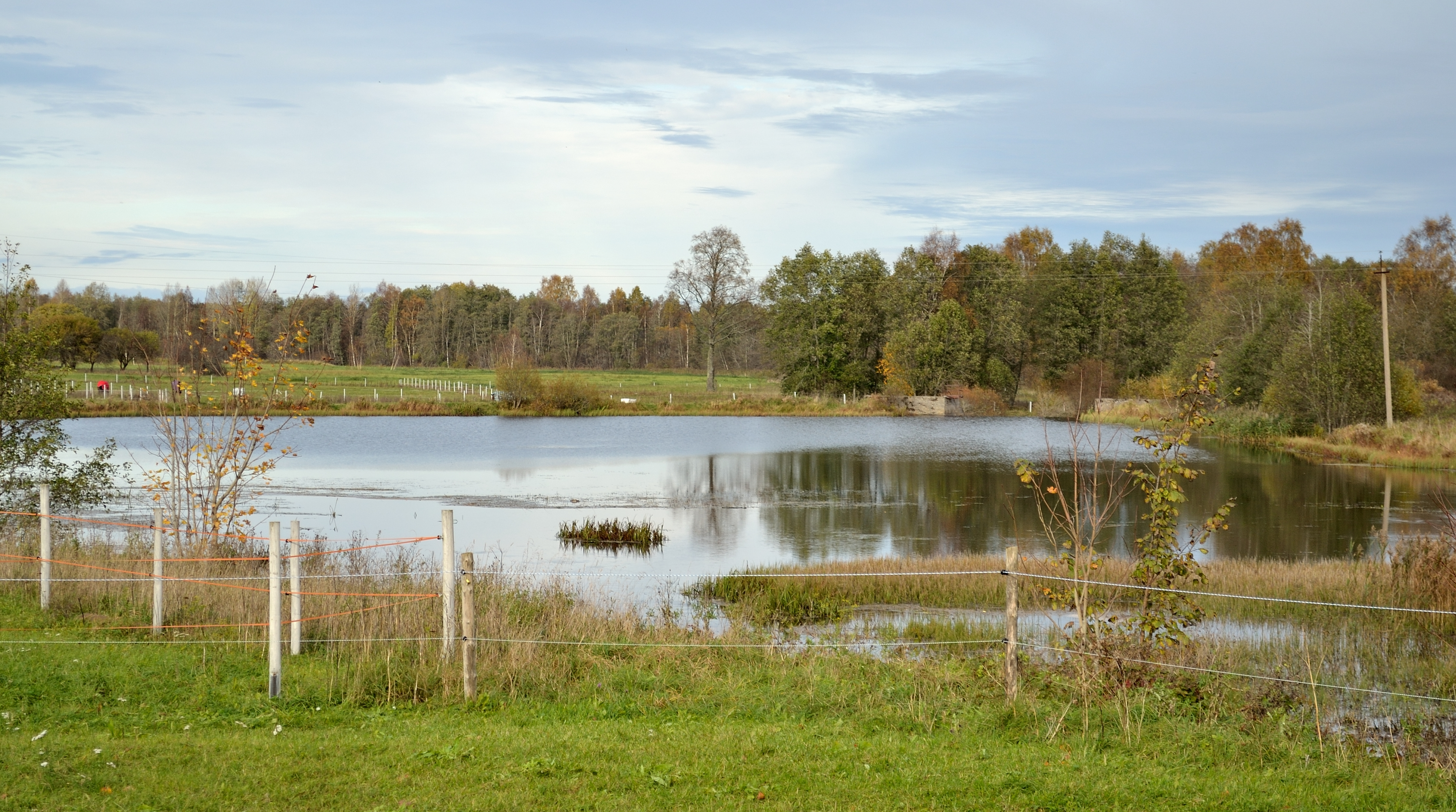 Ruila village reservoir and pasture